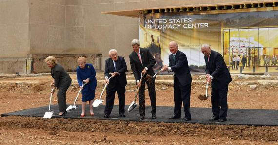 Six Secretaries of State at the USDC groundbreaking ceremony on September 3, 2014 (Photo by the U.S. Department of State, Bureau of Public Affairs)